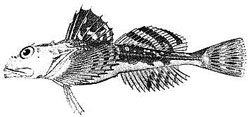 Longhorn sculpin, Myoxocephalus octodecemspinosus, from Greenland waters